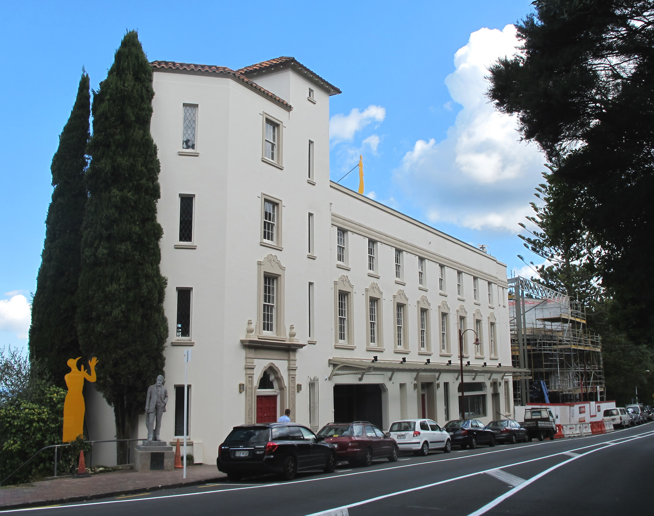 Lopdell House in Titirangi, Auckland New Zealand, following recent earthquake strengthening and renovation.